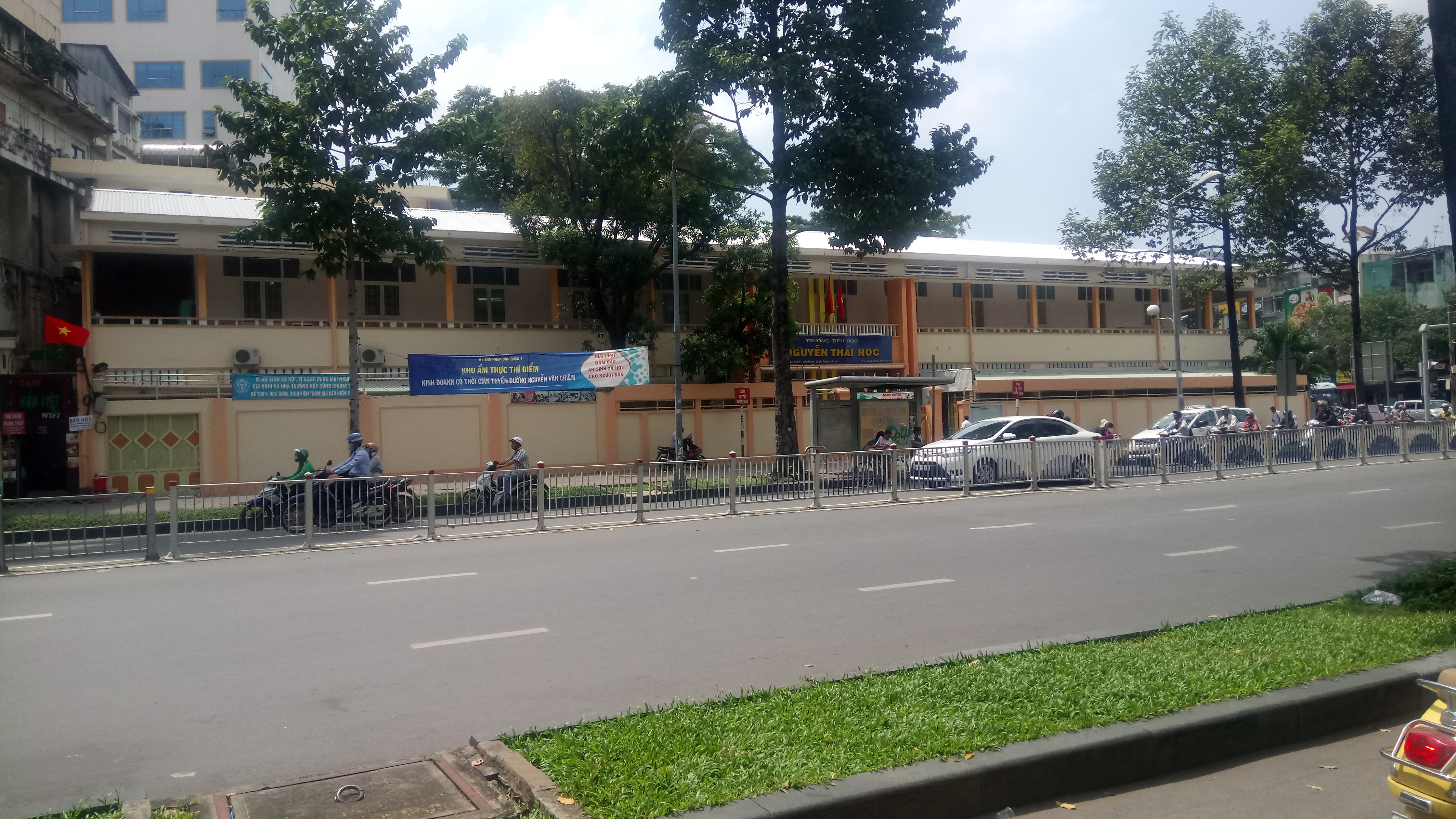 Nguyen Thai Hoc Elementary School, District 1